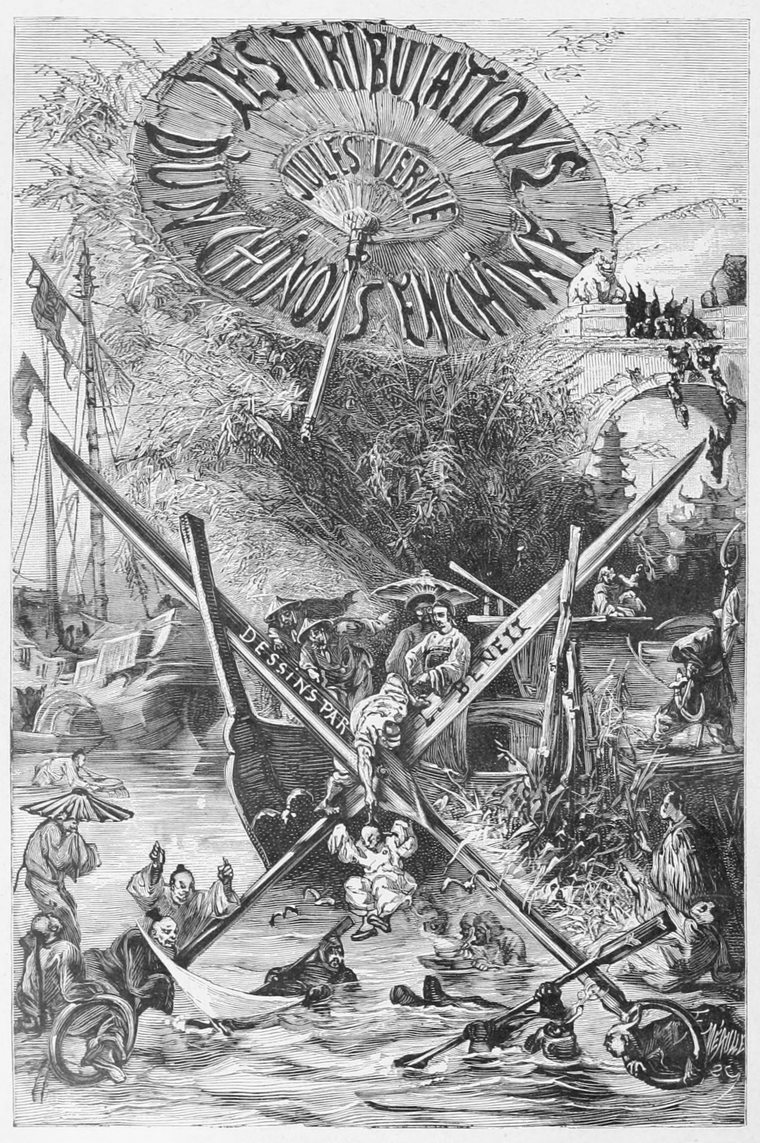 excerpt of File:Verne - Les Tribulations d’un Chinois en Chine.djvu, page 8